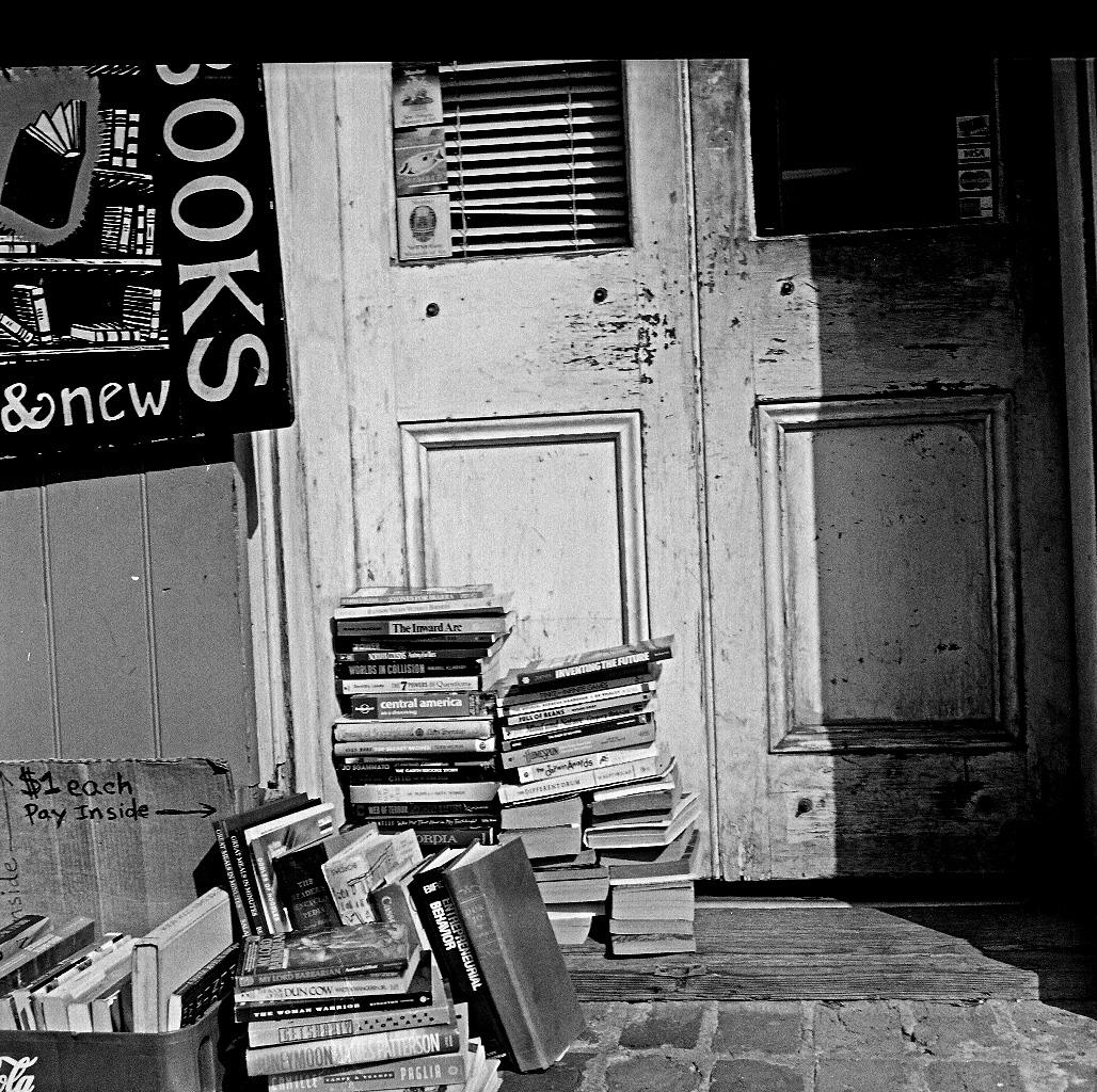 Front stoop of a book store, French Quarter, New Orleans. Book store across the street from our hotel. Love the textures in this.